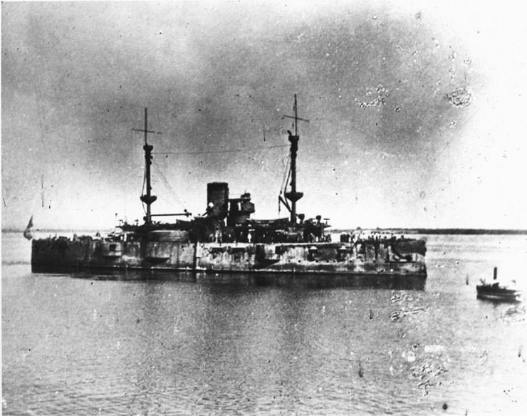 Photo #: NH 89467 USS Texas (1895-1911) in Cuban waters, during the Spanish-American War, May-July 1898.